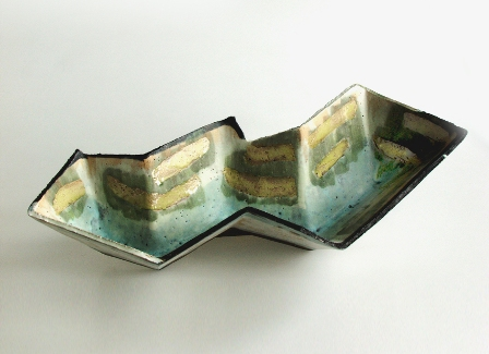 Ceramic object by the artist Maria Baumgartner, h = 15, l = 63 cm